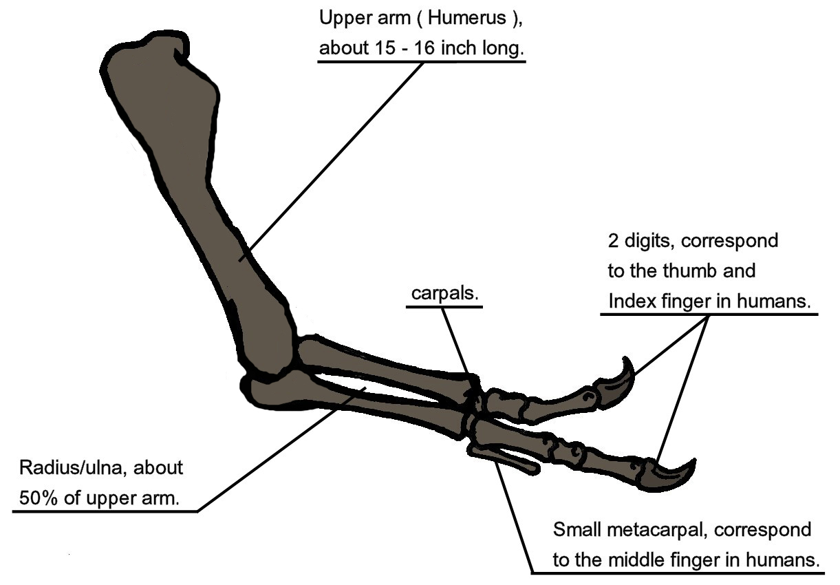 Illustration of the forelimb from a tyrannosaurid dinosaur. Tyrannosaurids, like Tyrannosaurus rex, is famous for their tiny arms.